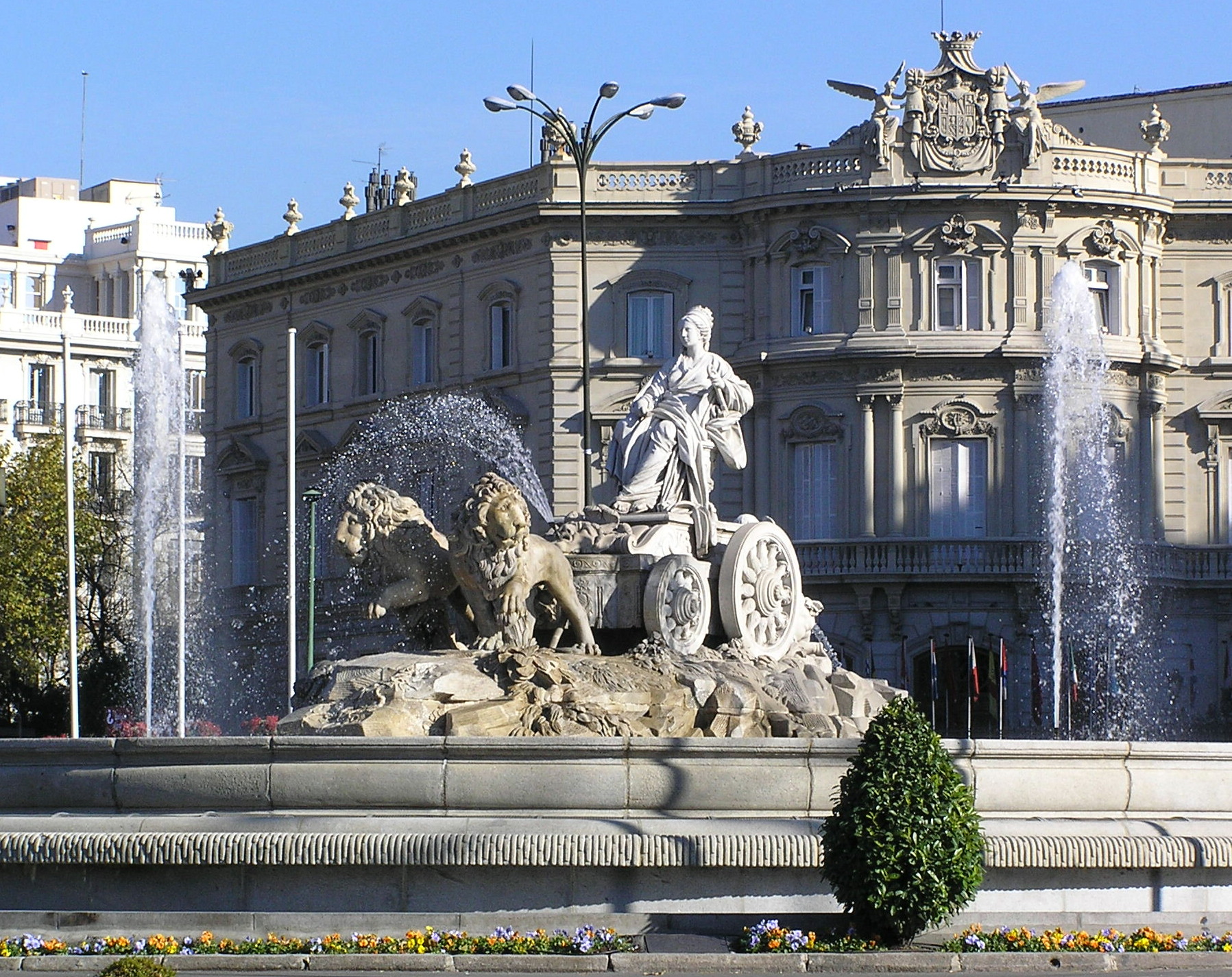 Fountain of Cybele with the Palacio de Linares (House of the Americas headquarters) in the background. Madrid, Spain. Author: Mr. Tickle Date: December 6th, 2005 (Constitution Day) Place: Plaza de Cibeles (square), Madrid, Spain.